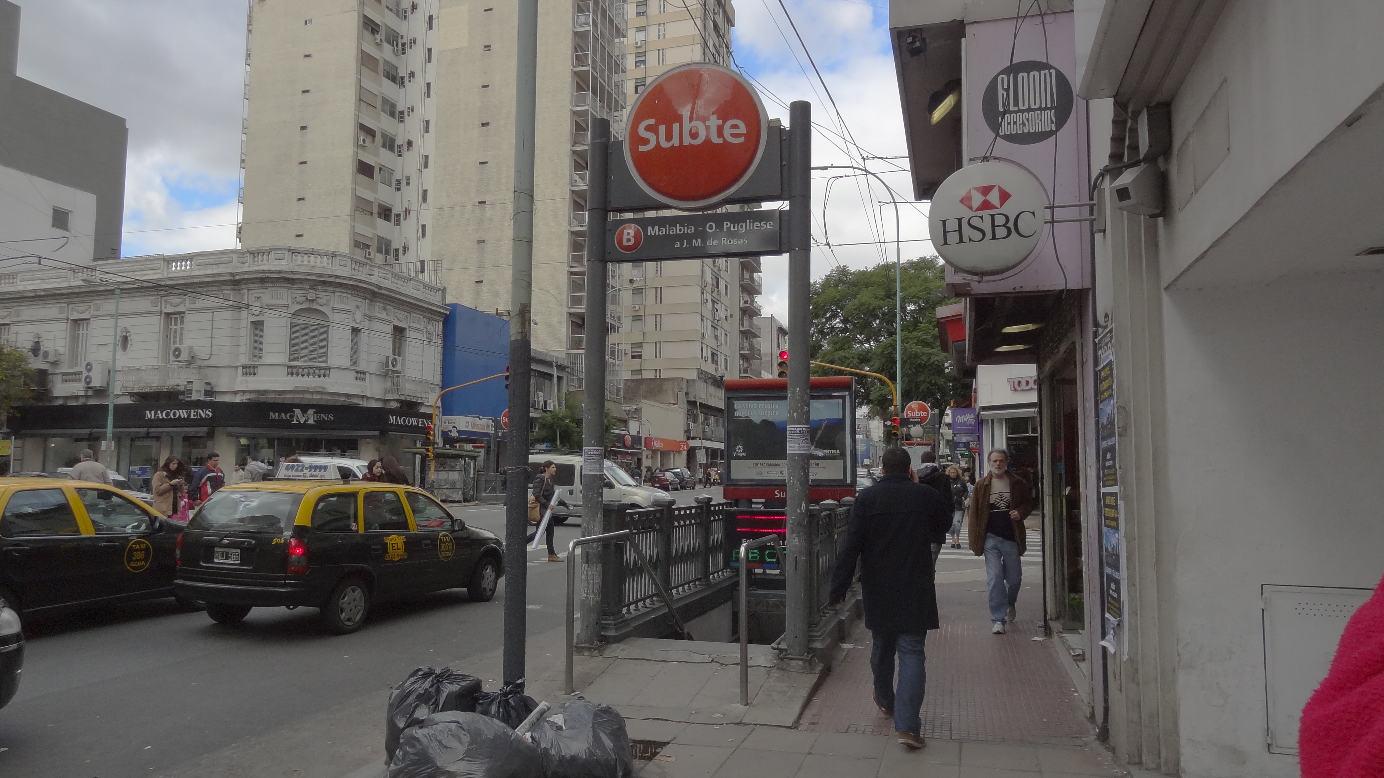 Access to Malabia station, of the buenos aires metro